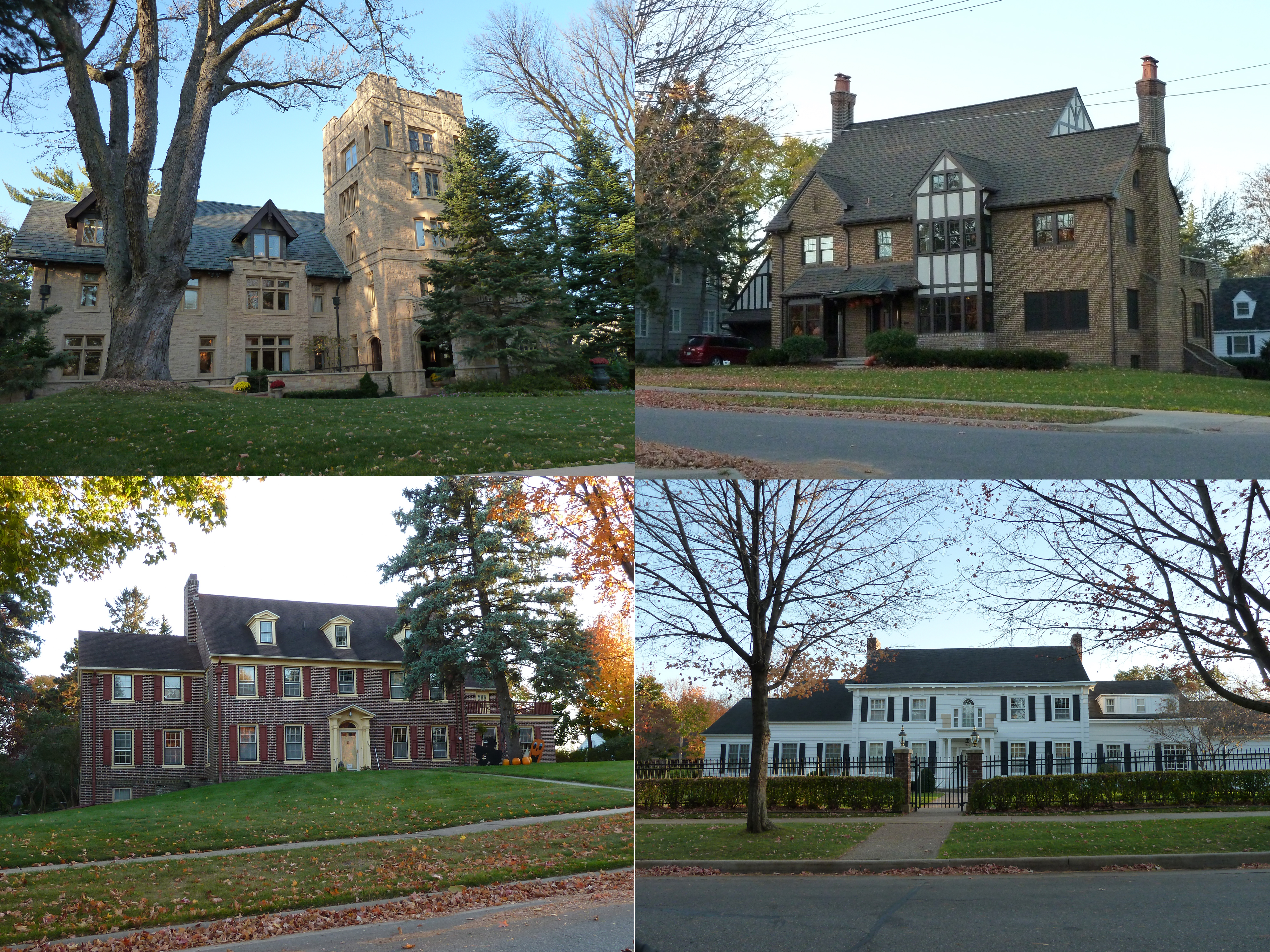 A selection of homes from the Pill Hill Residential Historic District, Rochester, Minnesota, USA.